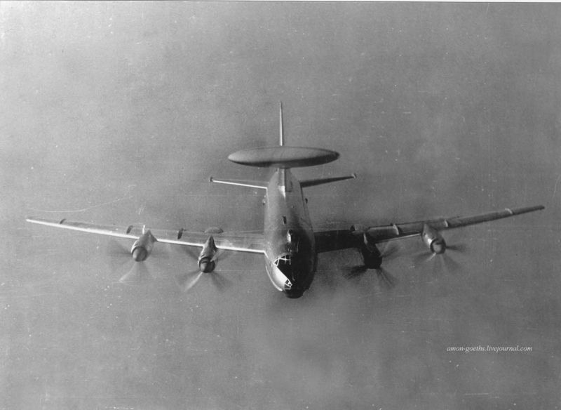 Tupolev Tu-126, fuel loading